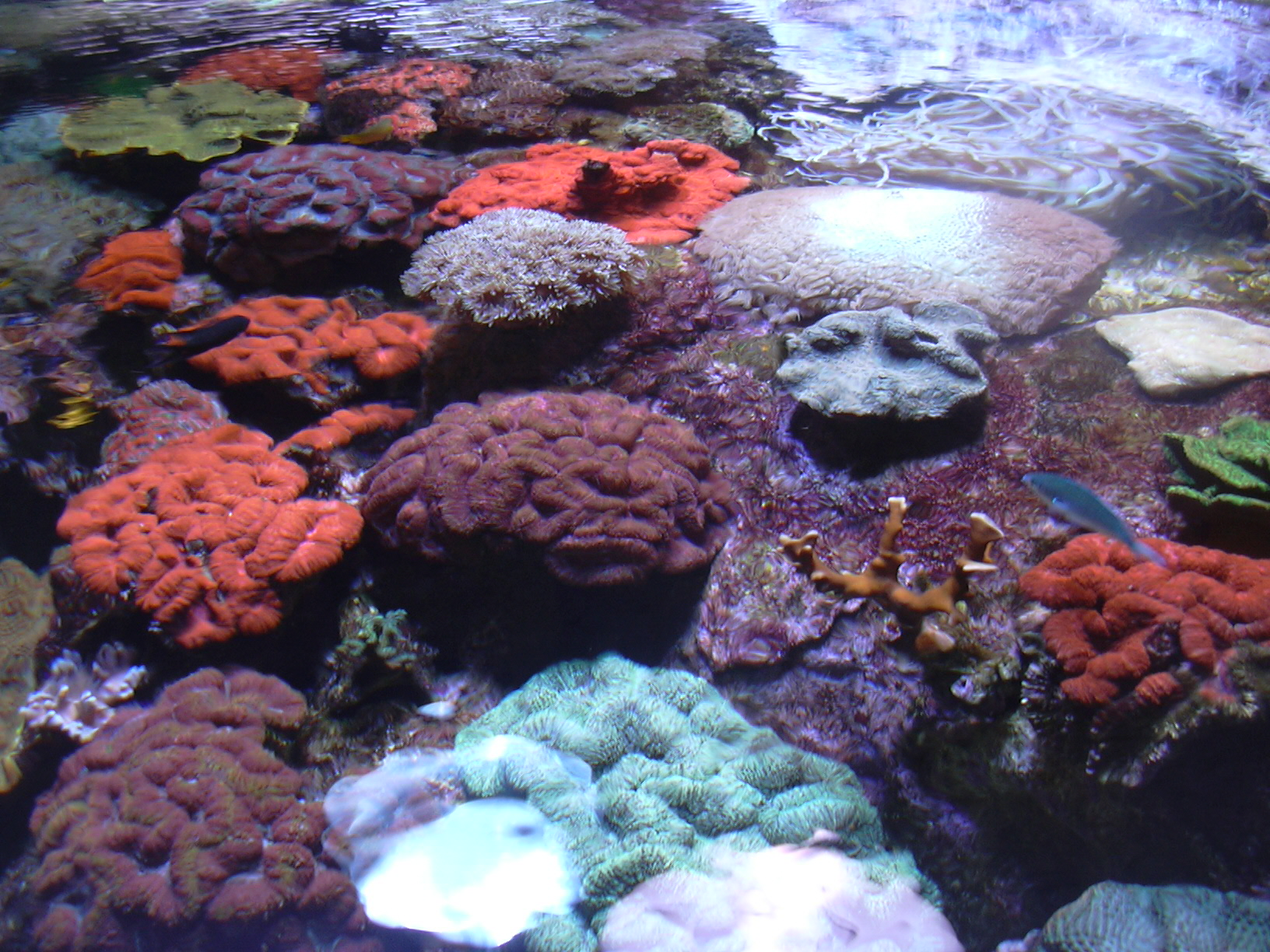 AQWA, Perth, Corals (Coral Coast)